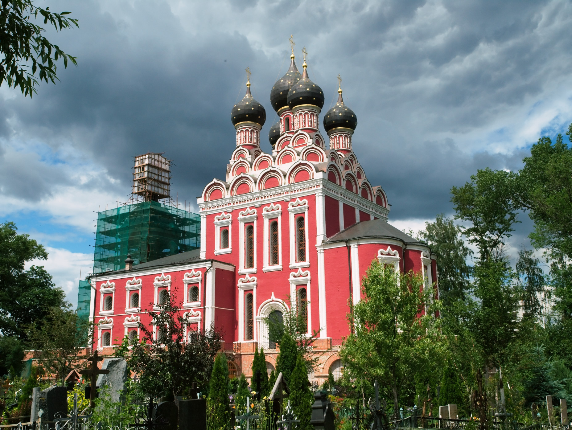 Church of Tikhvin icon of Theotokos in Alekseyevskoye (Moscow)